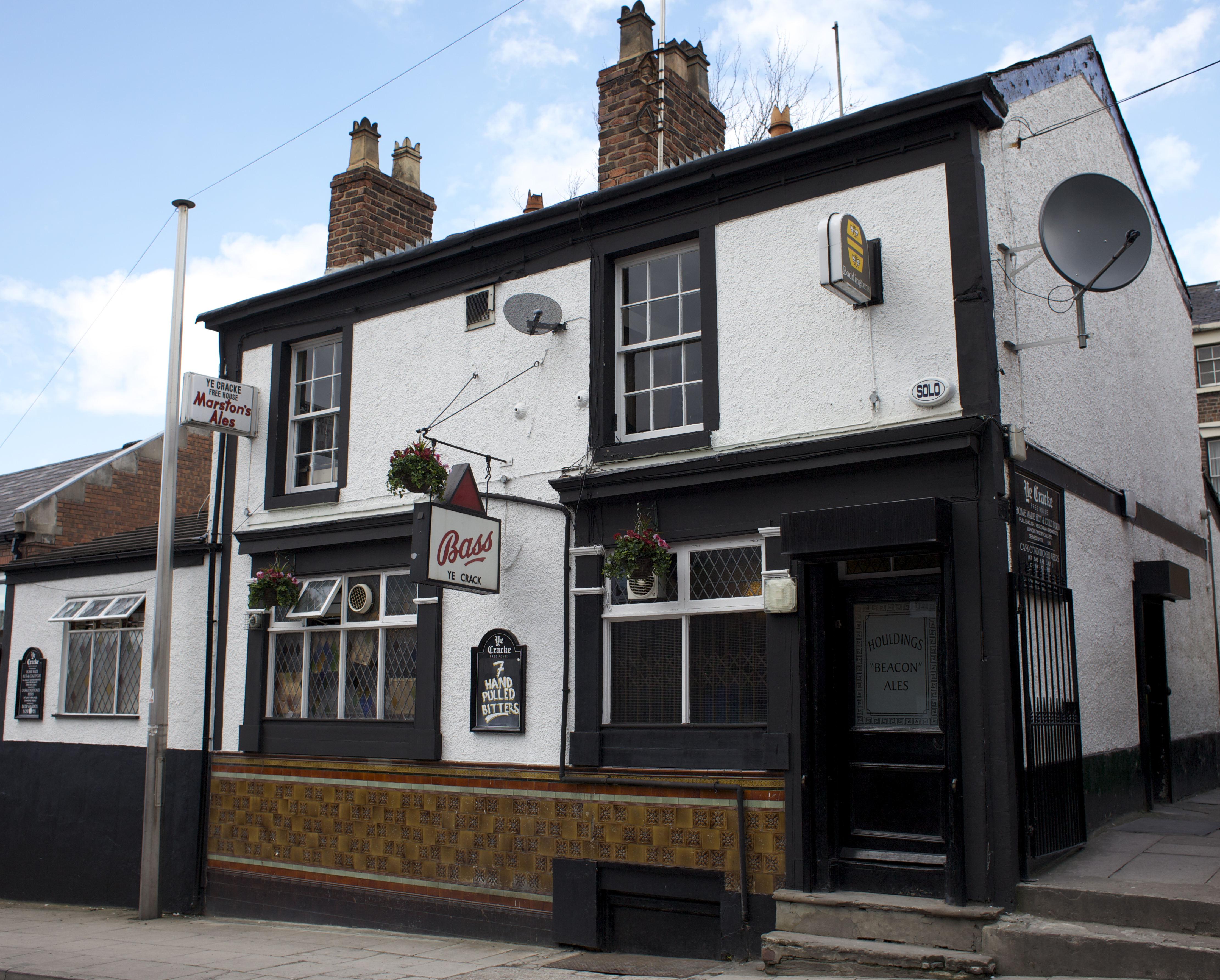 Ye Cracke public house, Rice Street, Liverpool, UK